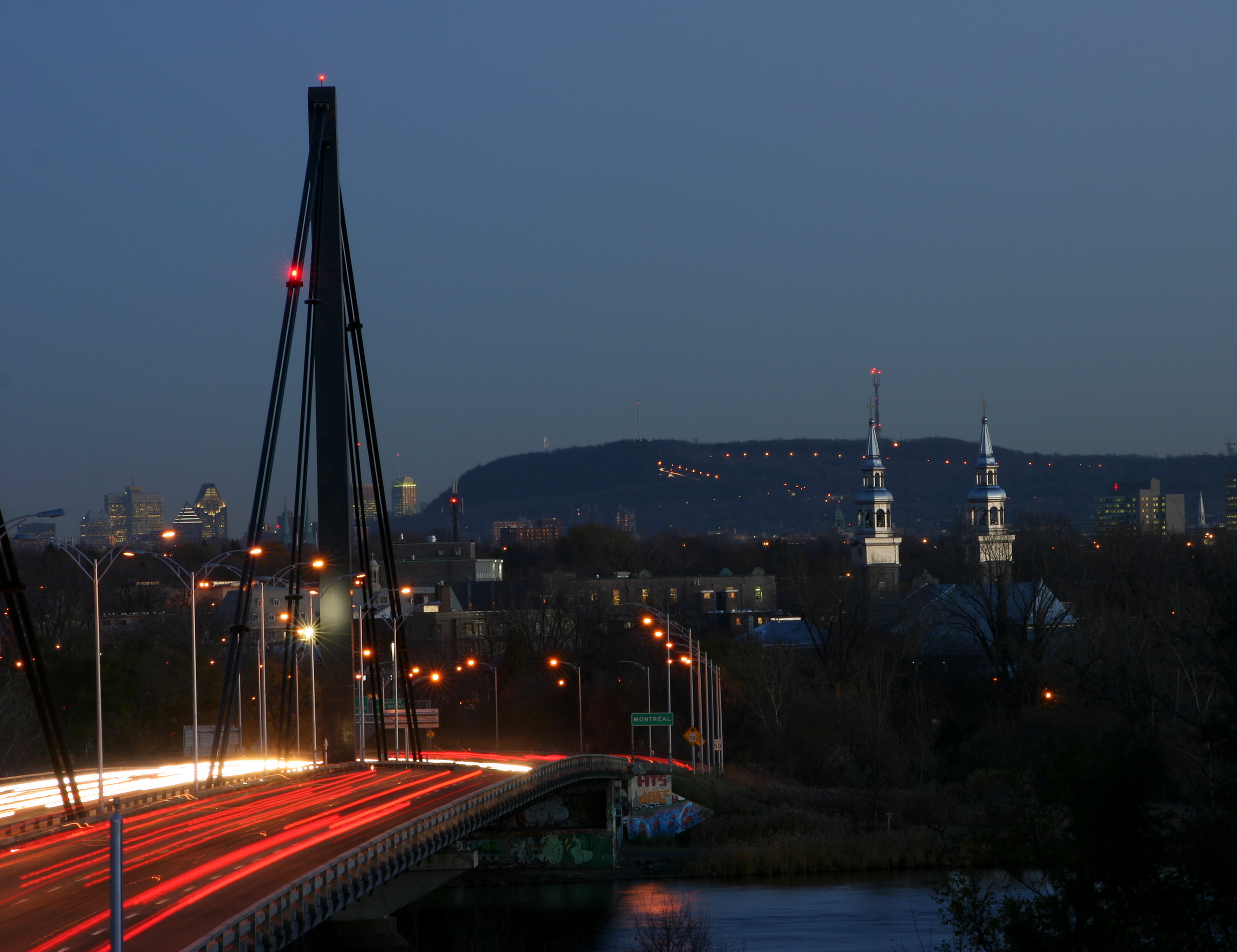 Night shot of the Papineau-Leblanc bridge. Shot taken from Laval.